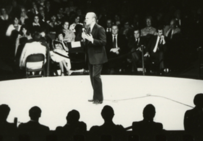 The photo contact sheet, identified as B2097 by the White House Photographic Office (WHPO), is housed at the Gerald R. Ford Presidential Library, a branch of the National Archives and Records Administration (NARA). This file is a 200 dpi photo contact sheet having images from roll of film B2097 of the August 9, 1974 - January 20, 1977 Gerald R. Ford White House Photographic Office Series A0001-A9999 and B0001-B2886 photographs. The date on the photo contact sheet is the date the roll of film was processed, not necessarily the date the photographs were taken. See table below for additional details.